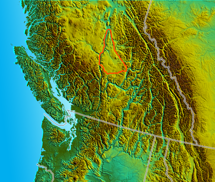 adapted from 708px-South_BC-NW_USA-relief.png which is already in Wikimedia Commons